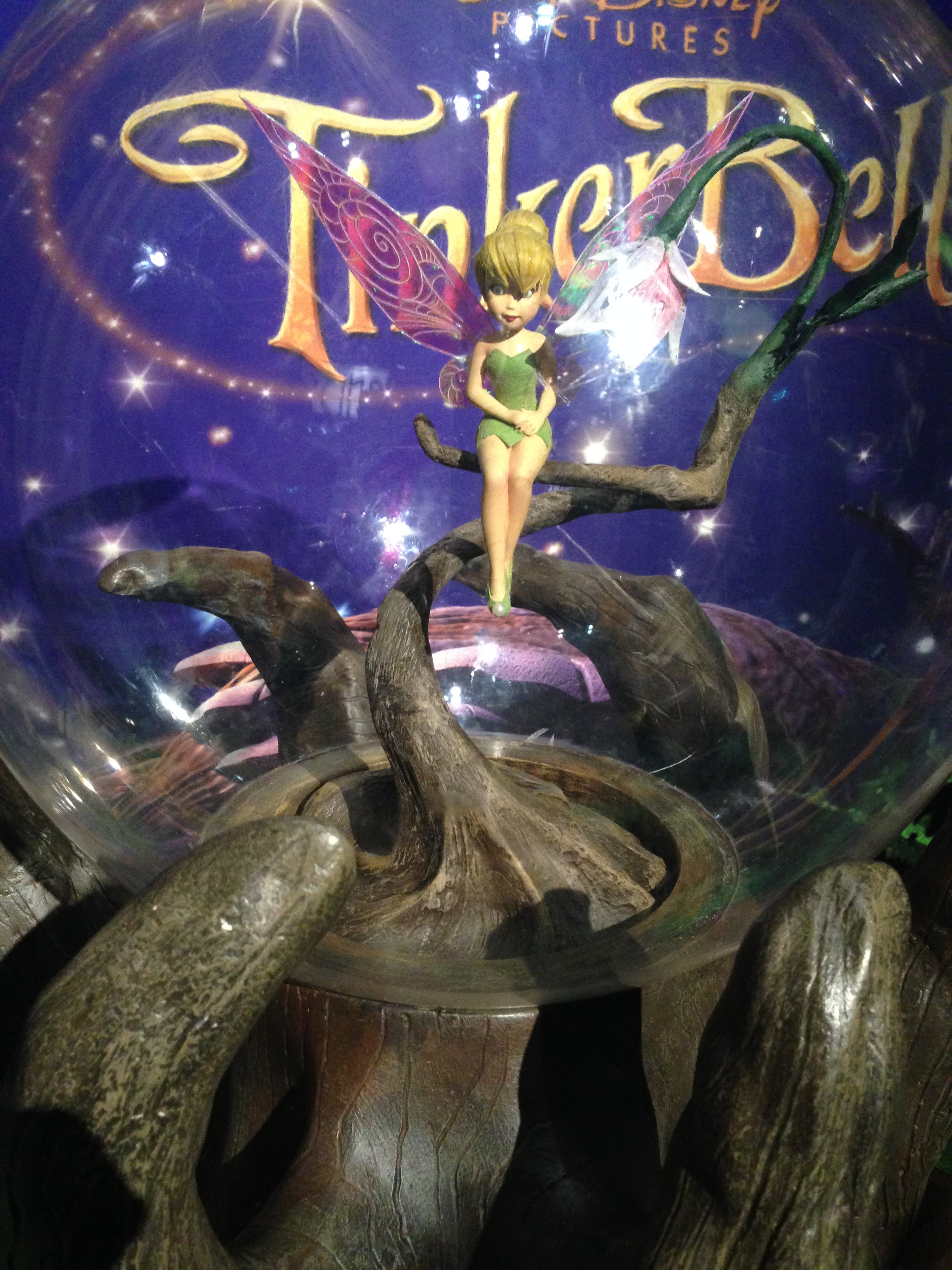 Tinker Bell (the smallest "figure at all time) at Madame Tussauds London - November 1st, 2016